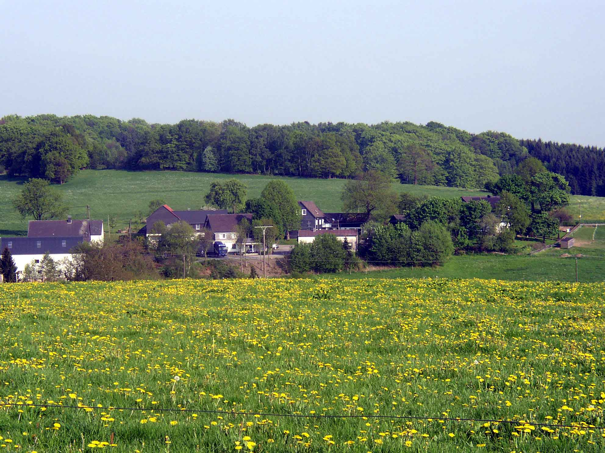 Picture of Peppinghausen